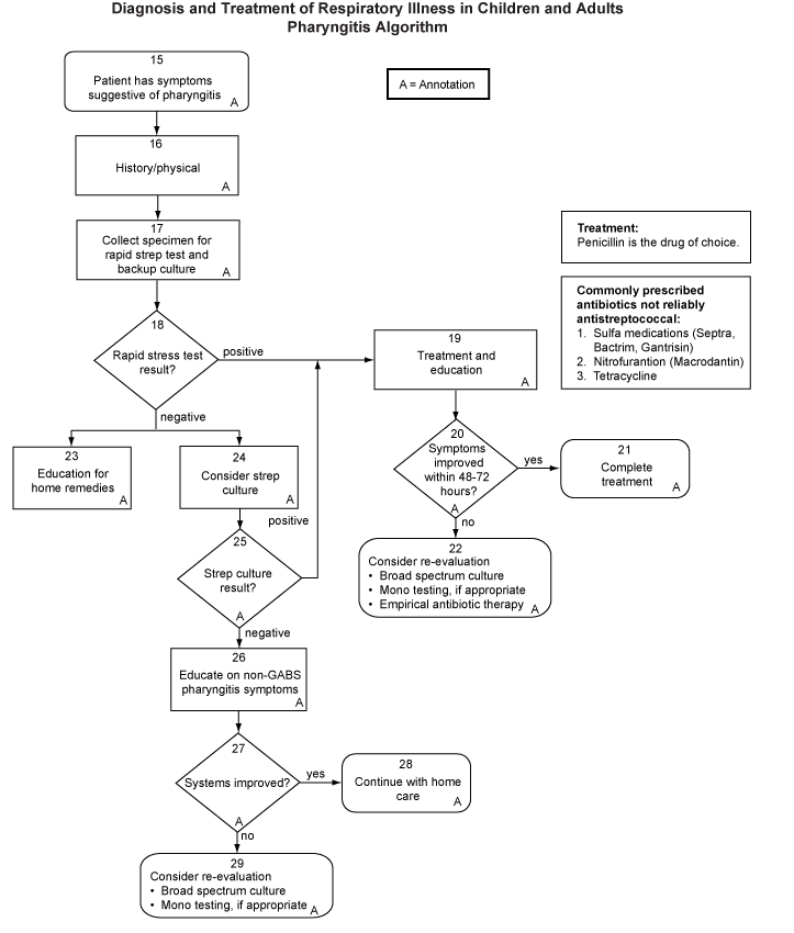 US government medical treatment guideline